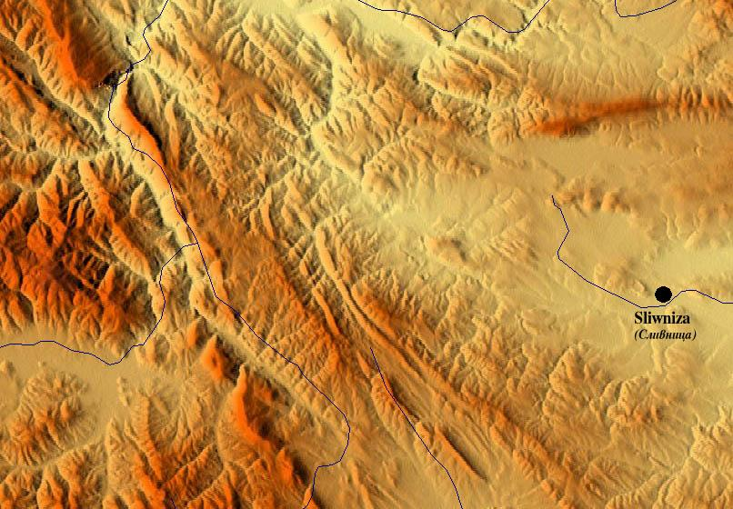 Battle of Slivnitsa: Relief